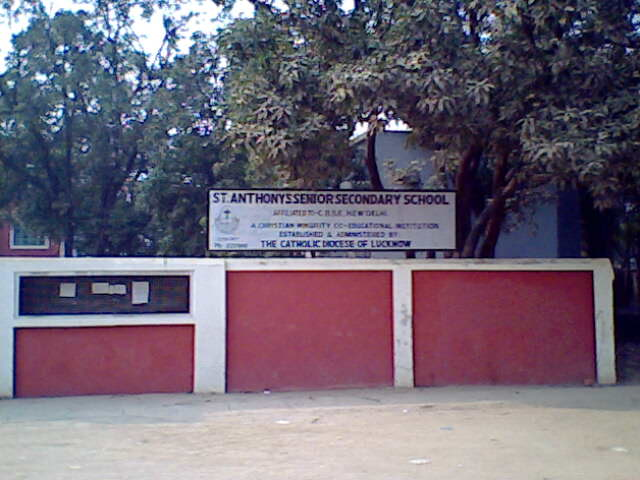 Board view of Saint Anthony's Inter College. Picture taken by Faiz Haider, using LG KP119 (Dynamite) on Saturday, January 24, 2009, 3:07:16 PM